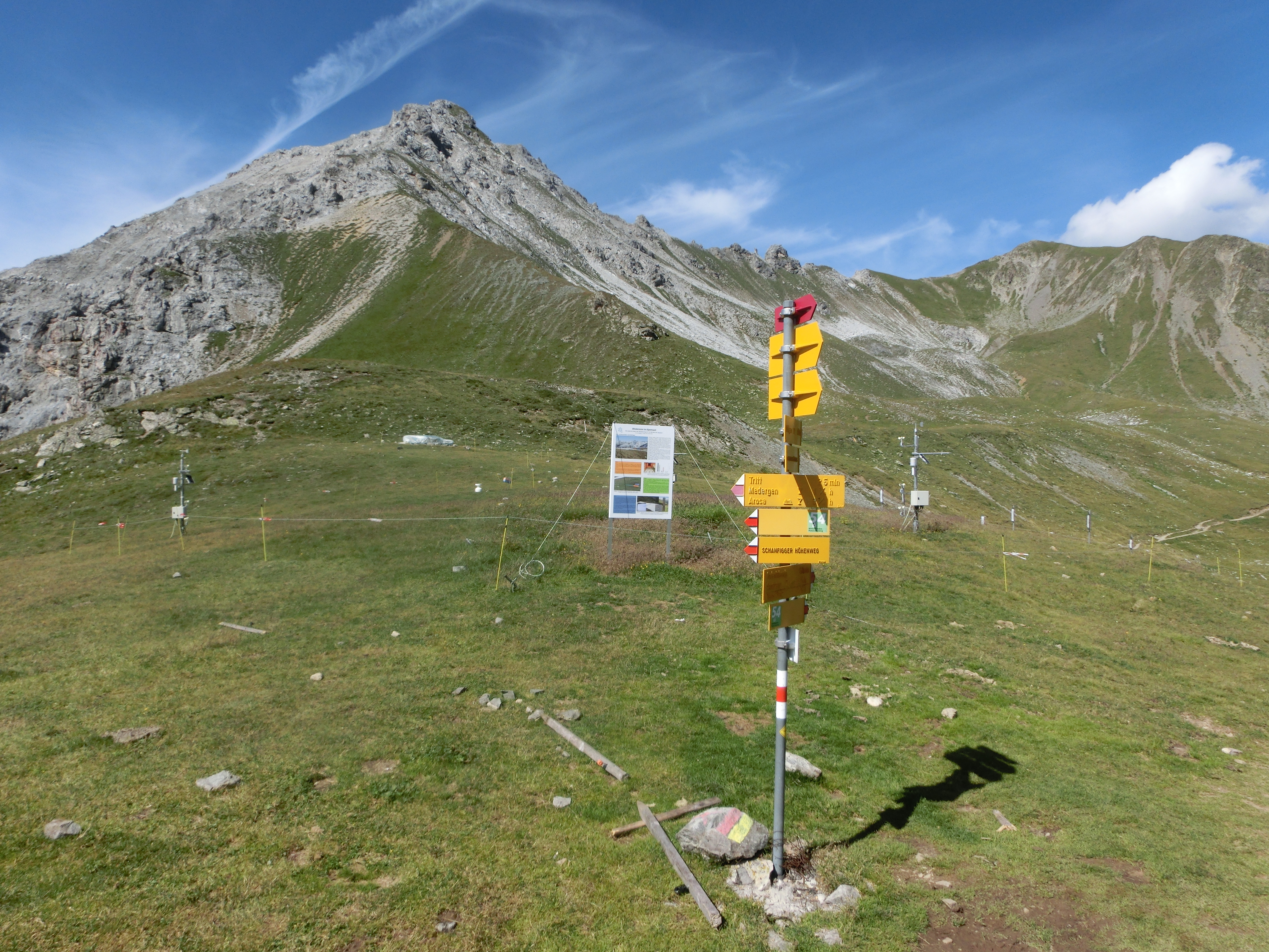 Fingerpost on Latschüelfurgga, Chüpfenflue and Strela in the background, Arosa, Davos, Grison, Switzerland